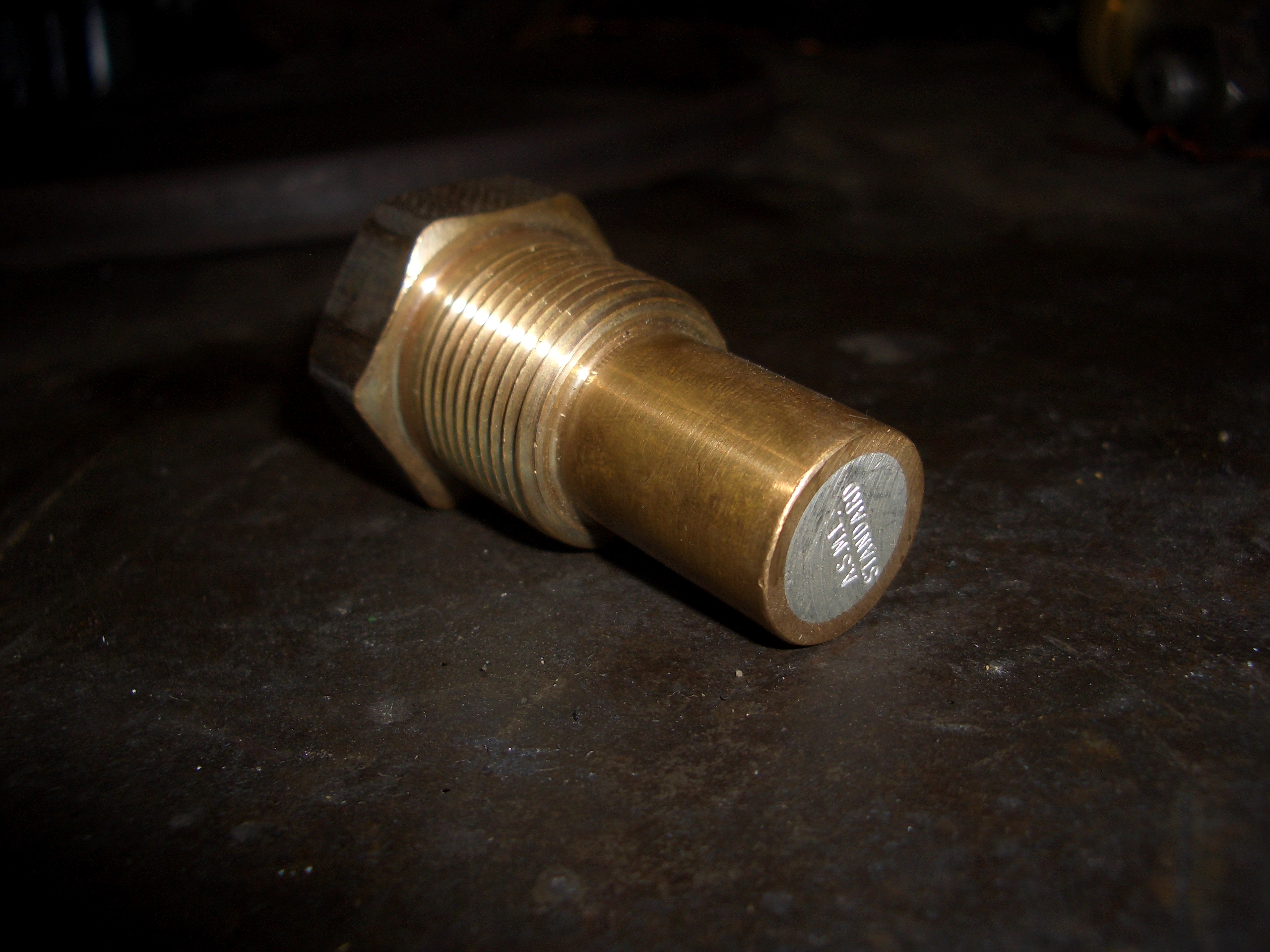 A fusible plug, taken inside the Omaha Train Depot at the Henry Doorly Zoo in Omaha, Nebraska. The core, stamped "A.S.M.I. STANDARD", is clearly visible. This particular plug is about 8 cm (3 in) long and about 3 cm (1 in) in diameter.